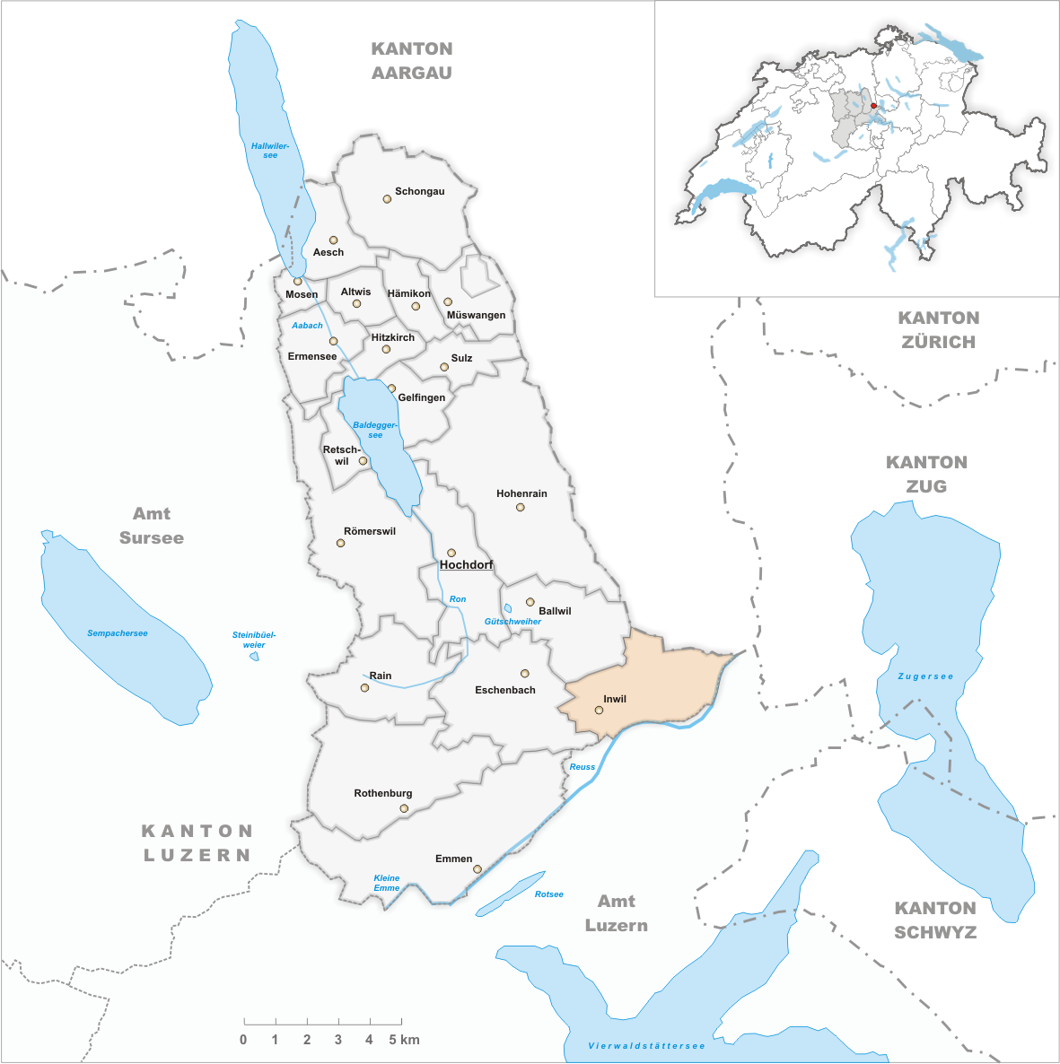 Municipality Inwil